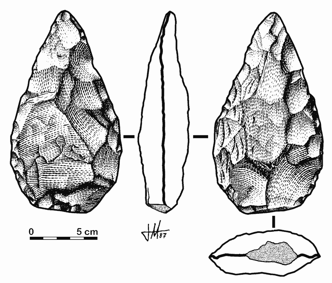 Handaxe from the Quaternary fluvial terraces of Esla River, tributary of the Duero river (Zamora, Spain); dated in Acheulean (Lower Paleolithic)